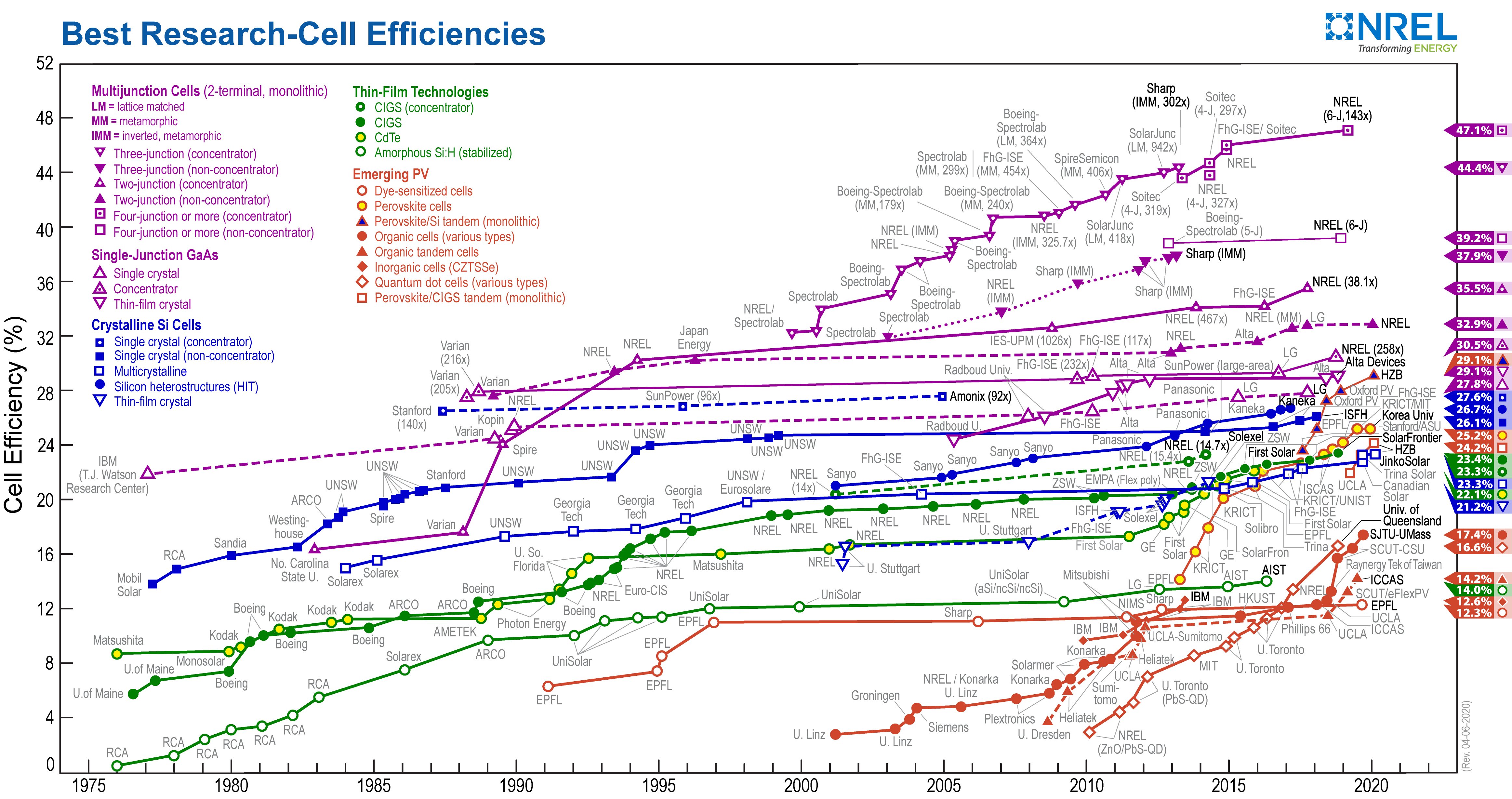 Conversion efficiencies of best research solar cells worldwide from 1976 through 2020 for various photovoltaic technologies. Efficiencies determined by certified agencies/laboratories.